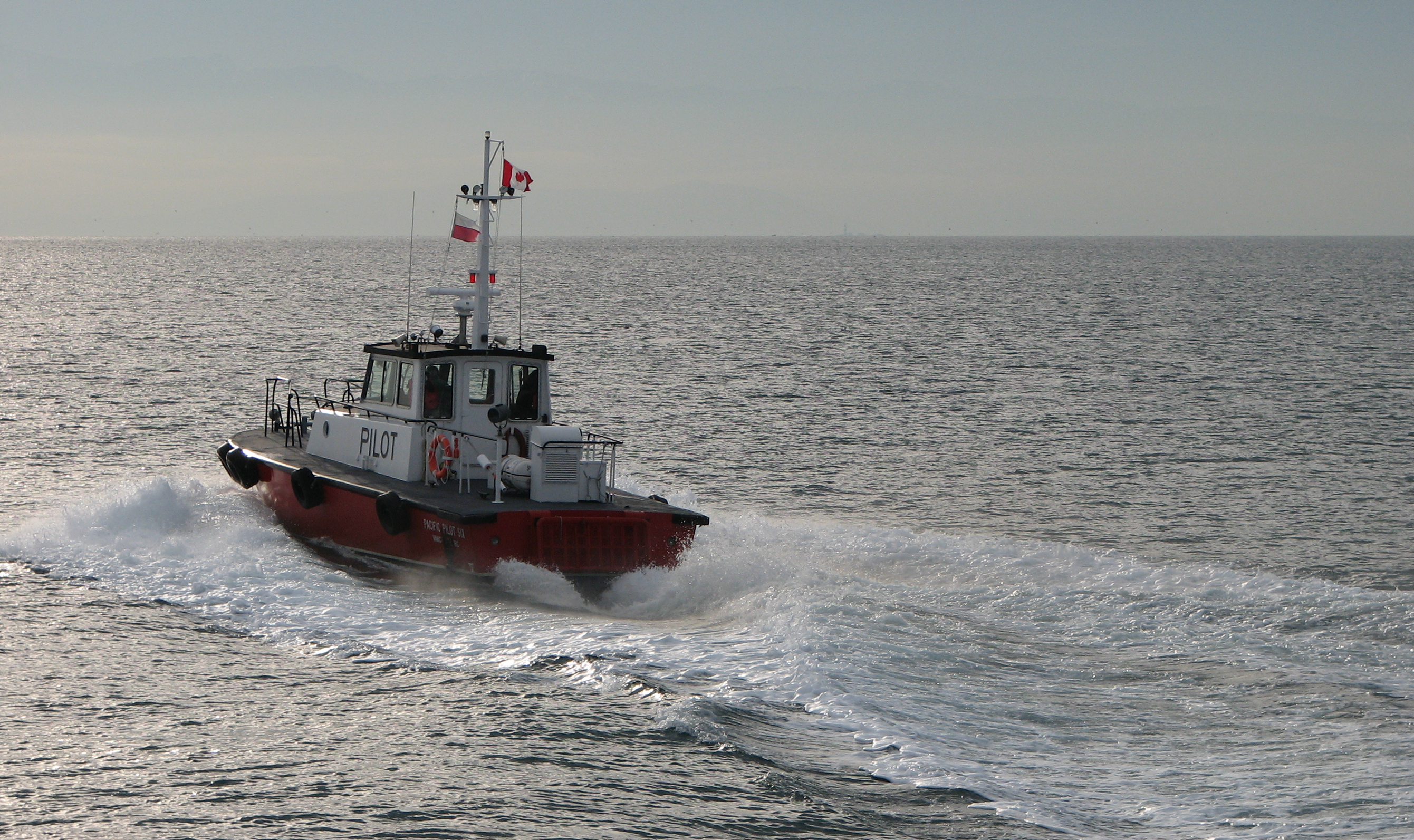 Pilot boat in Victoria, BC, at Ogden Point.